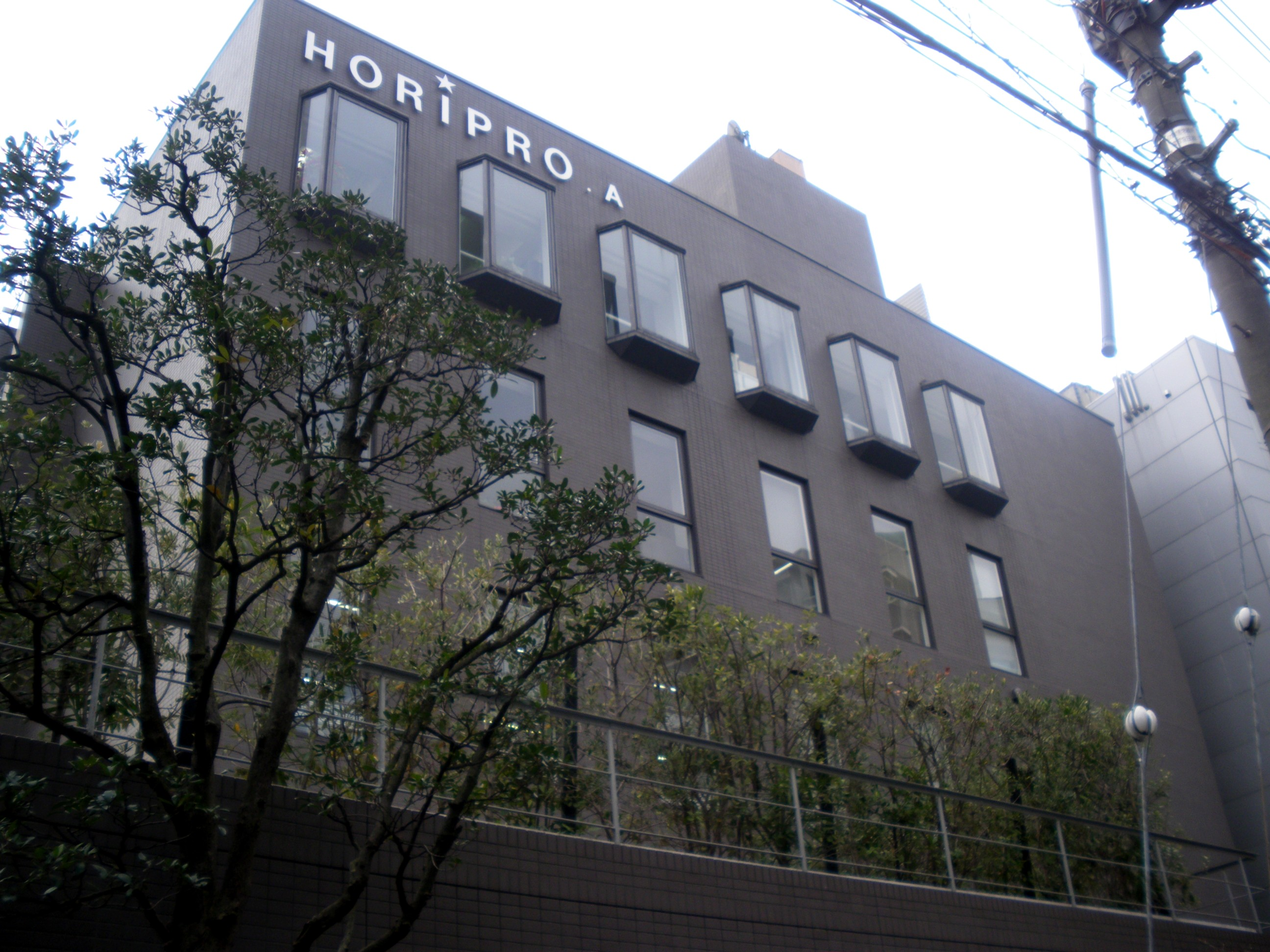 A photo of Horipro Inc.(Hori Production) head office,a large talent agency in Japan.Shimomeguro,Meguro-ku,Tokyo,Japan.